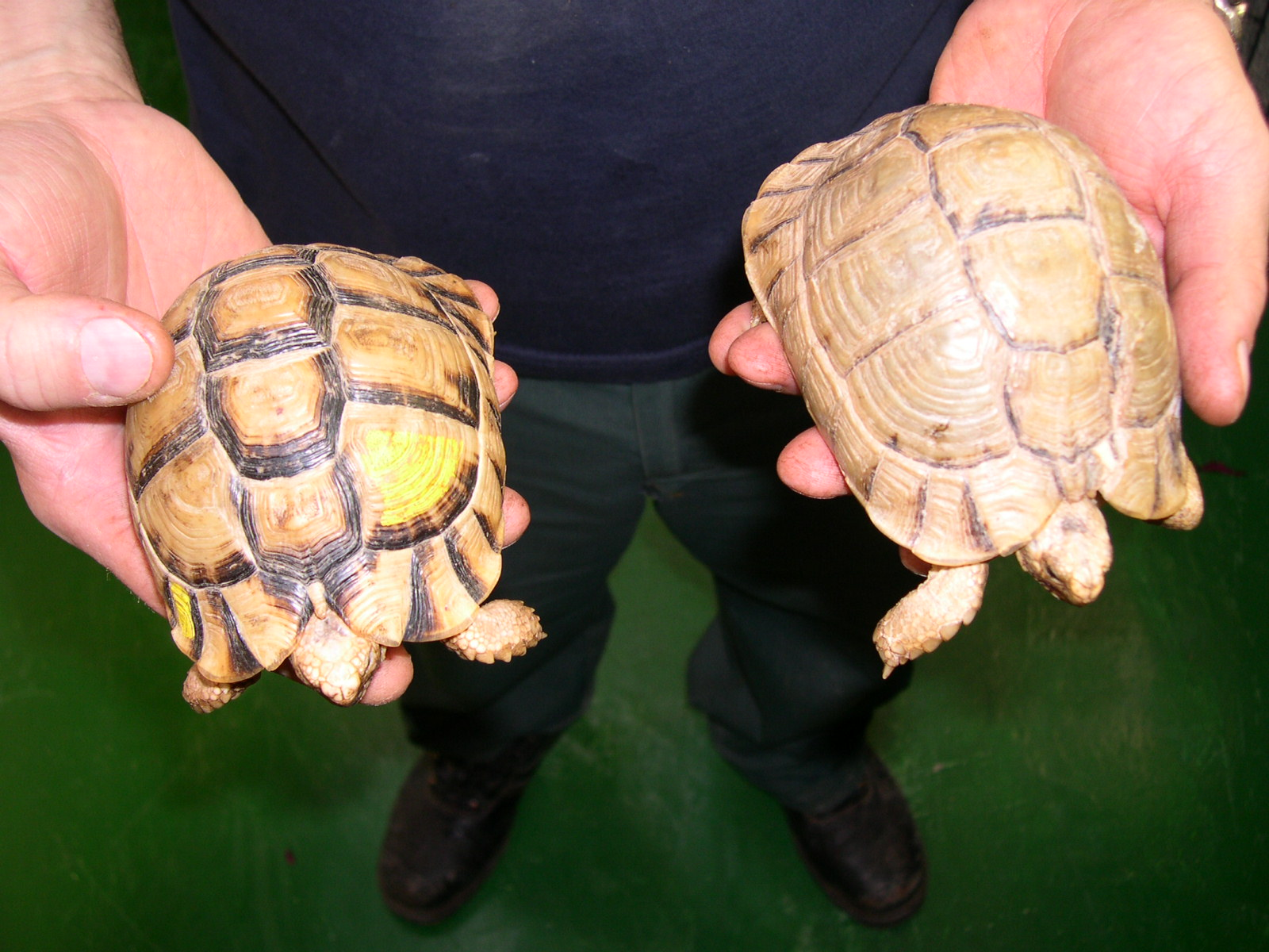 Carapace Testudo werneri, right- Testudo kleinmanni left